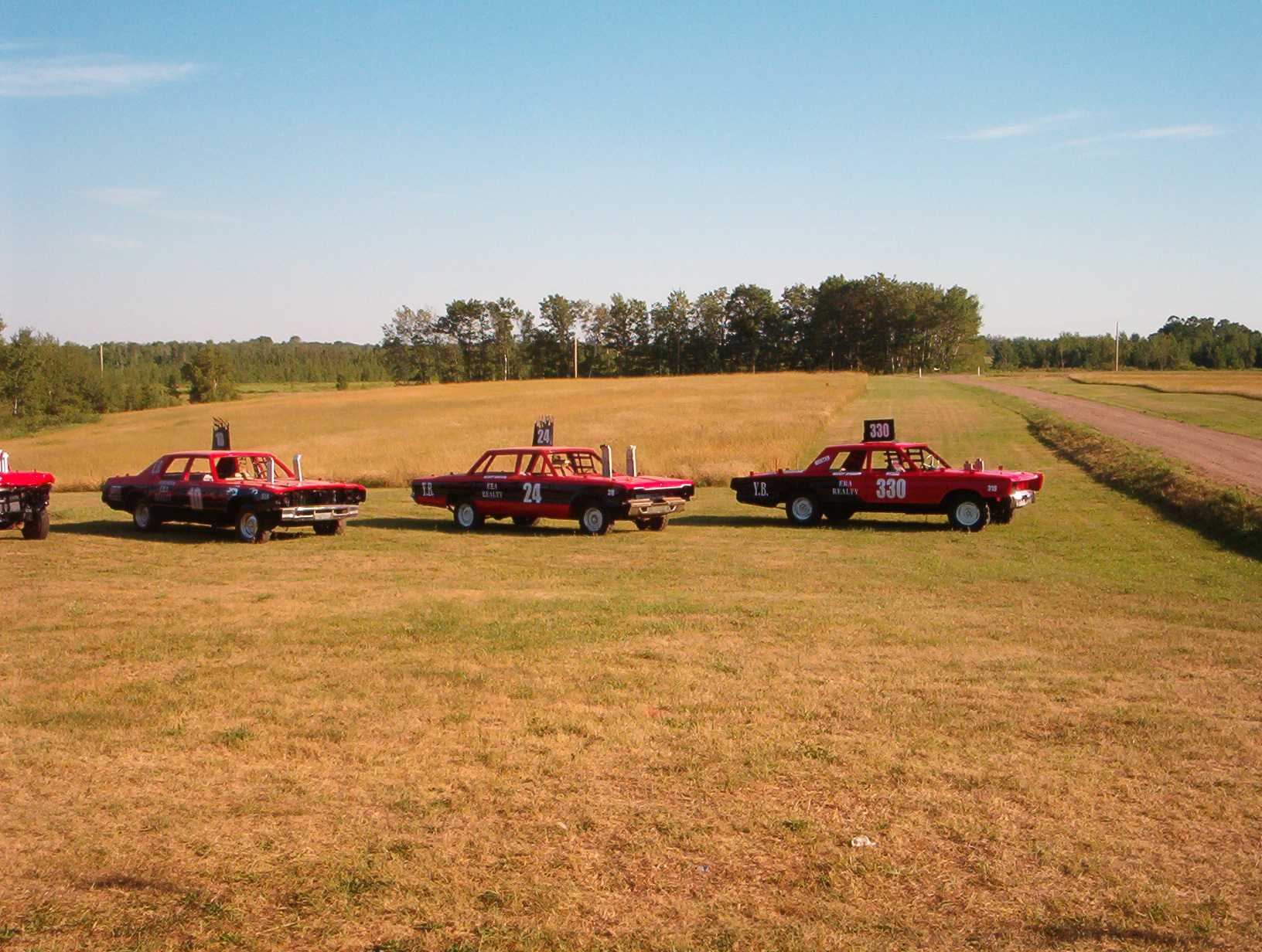 Supplied by: Nathan Johnson Taken by: Casey Kosicek